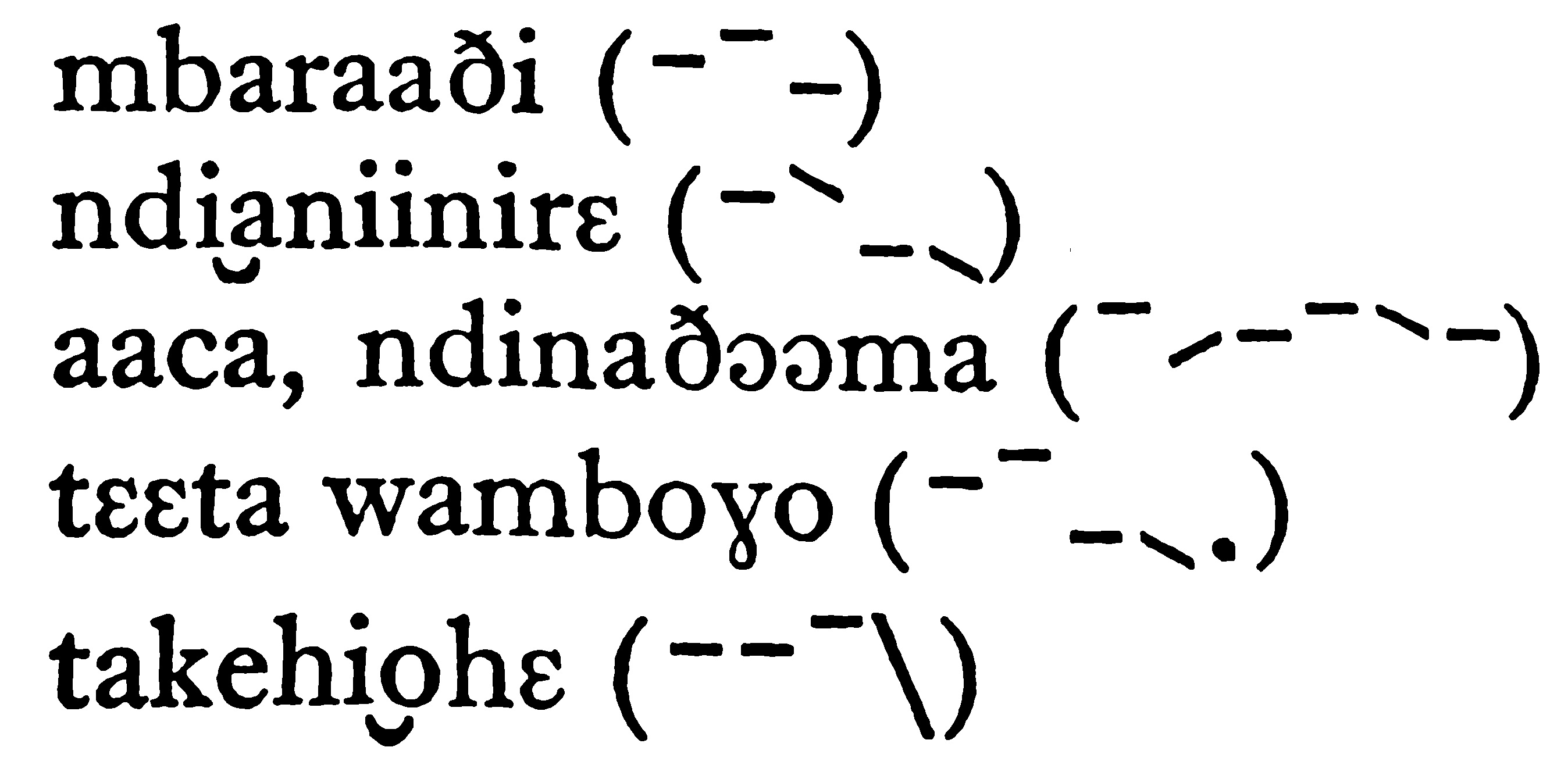 5 words or short phrases in Kikuyu with their tone marked in Armstrong's system. The image has been edited to focus on the Kikuyu words and align them. Armstrong's glosses and description of tones are: horse "mid, high, fairly-low—all level tones" Didn't he finish? "mid, high-mid fall, low, low fall" No, I didn't read it "high, low-mid rise, mid, high, high-mid fall, mid" Do call Wambogo "mid, high, low, low fall, very-low fall" Do please hurry up "mid, mid, high, high-low fall"